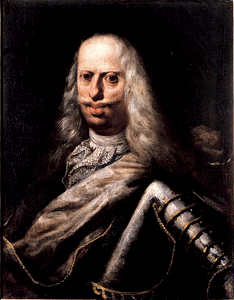 Cosimo III (1590-1621) in old age